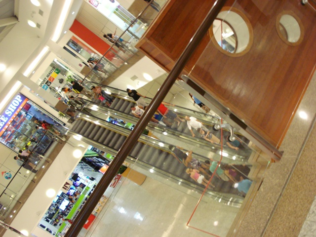 Norte Shopping em Natal, Rio Grande do Norte, Brasil Shopping mall Norte Shopping in Natal, Rio Grande do Norte, Brazil.